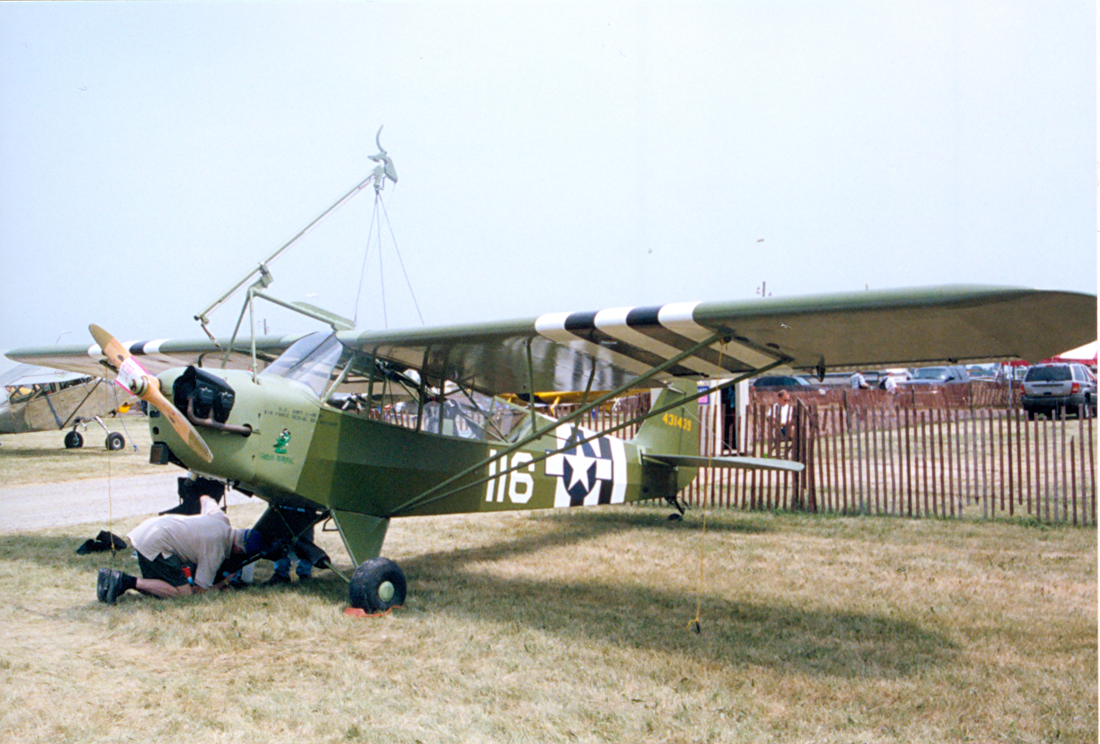 L4 with Brodie System